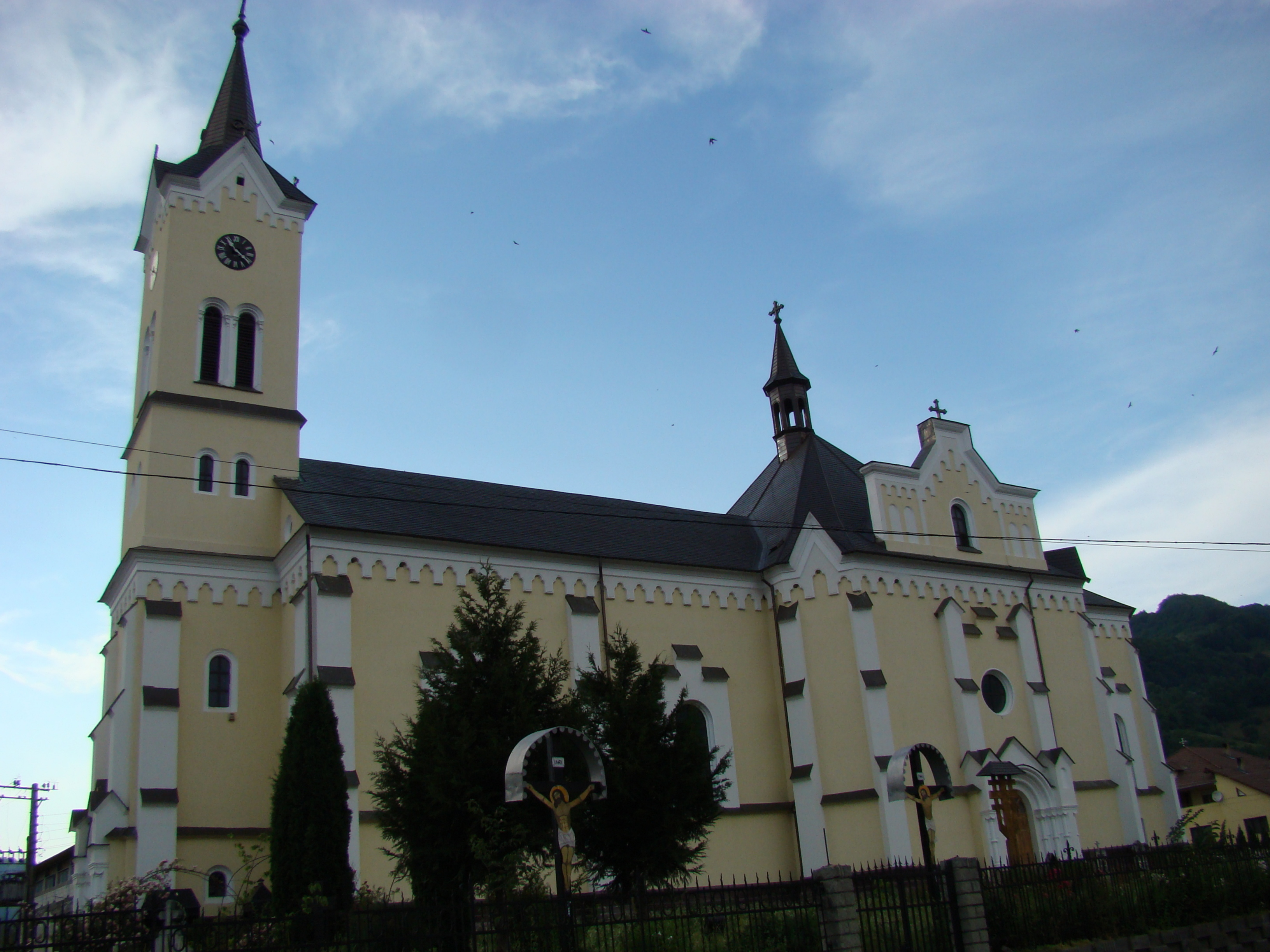 Vechea biserica greco-catolica din Telciu, Bistrița-Năsăud county, Romania